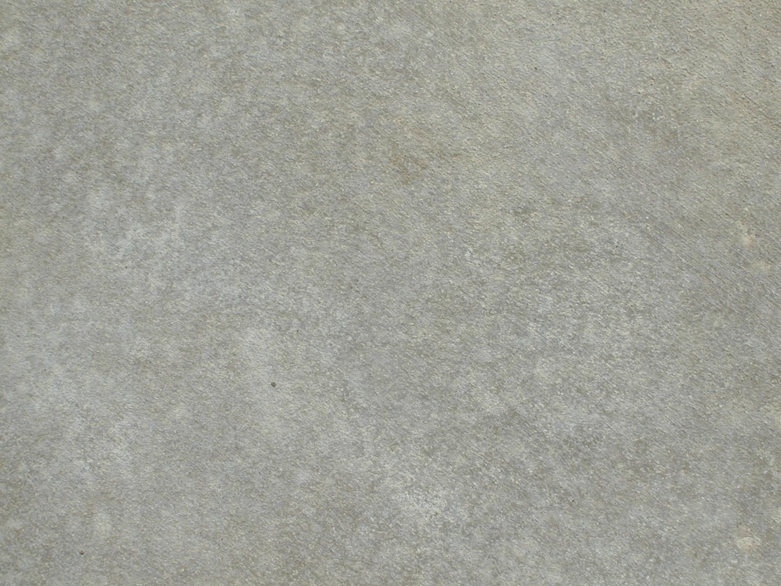 Image title: Cement texture Image from Public domain images website